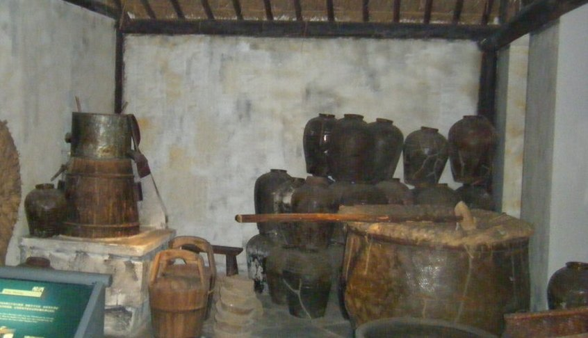 An old village distillery, represented in Shuixiang Cultural Museum, Hangzhou City, China